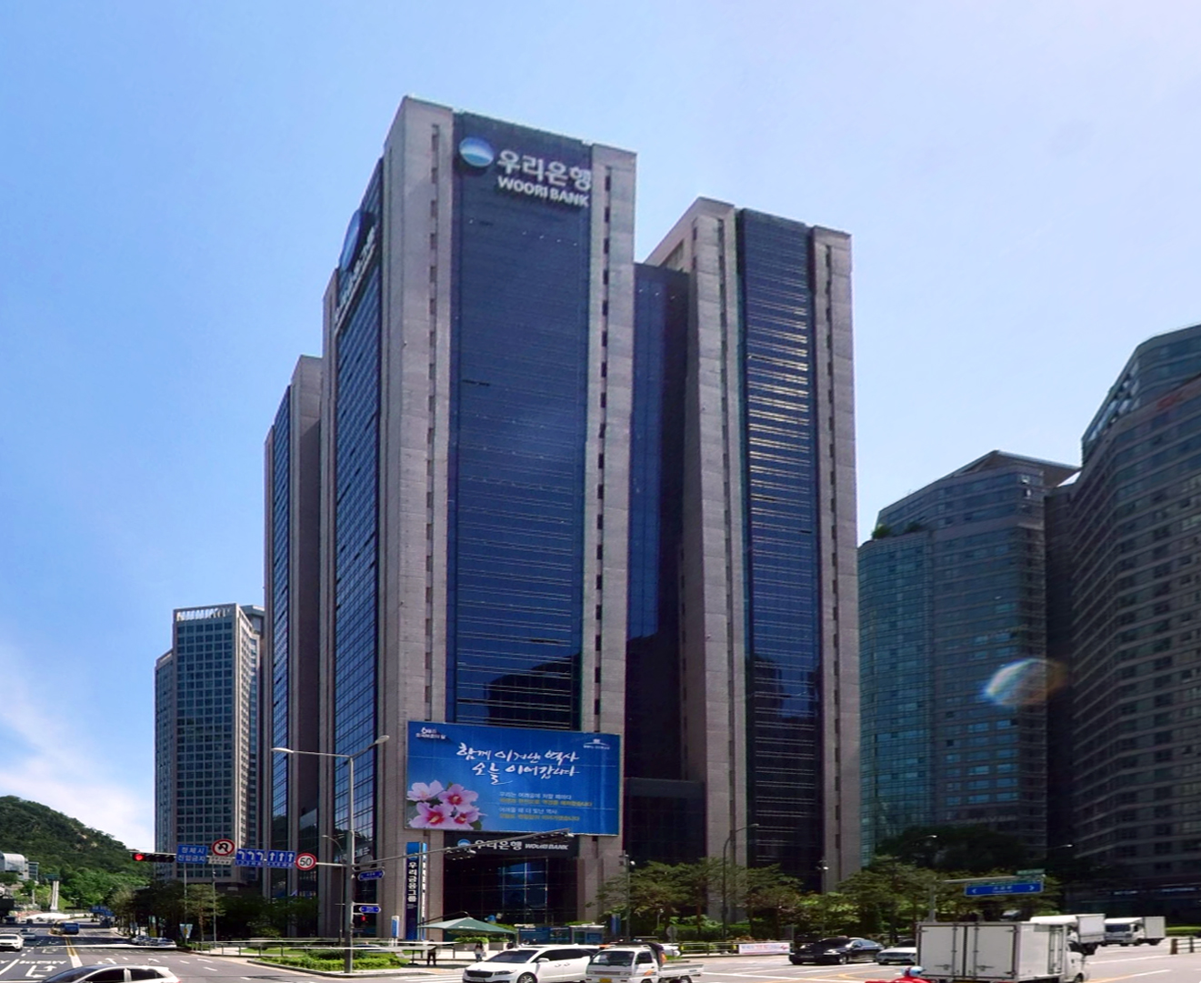 The Headquarter of Woori Bank